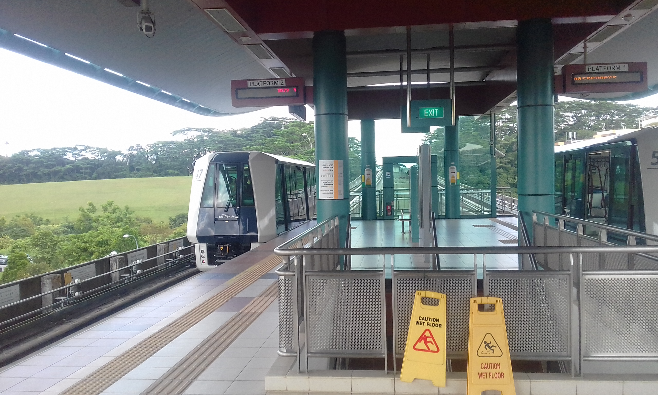 Sam Kee Platform